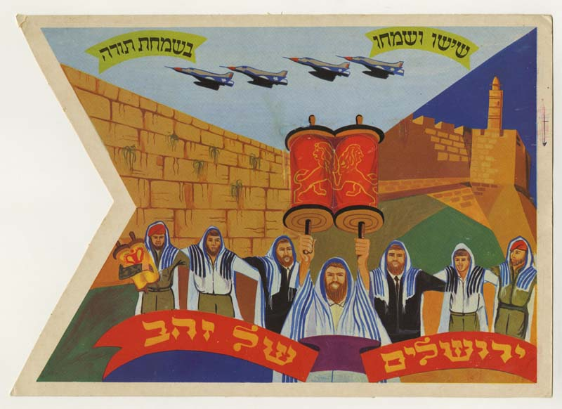 Description: Men wearing tallitot dancing with Torah scrolls in front of the Jerusalem city walls and David's Tower and flighter planes in the backdrop. The central Torah opens. On back: Hebrew texts and designs in blue depicting six-pointed stars (Magen David) and open and dressed Torahs. Inscription in Hebrew: "Jerusalem of Gold" on the bottom. Along top, "Celebrate and rejoice in celebration of the Torah (Simchat Torah)" Date: circa 1967 Medium: Paper, printed Repository: Yeshiva University Museum Call Number: 2005.004 Persistent URL: Rights Information: No known copyright restrictions; may be subject to third party rights. For more copyright information, click here. See more information about this image and others at CJH Digital Collections. This material may be used for personal, research and educational purposes only. Any other use without prior authorization is prohibited. Please contact the Yeshiva University Museum at for further information.